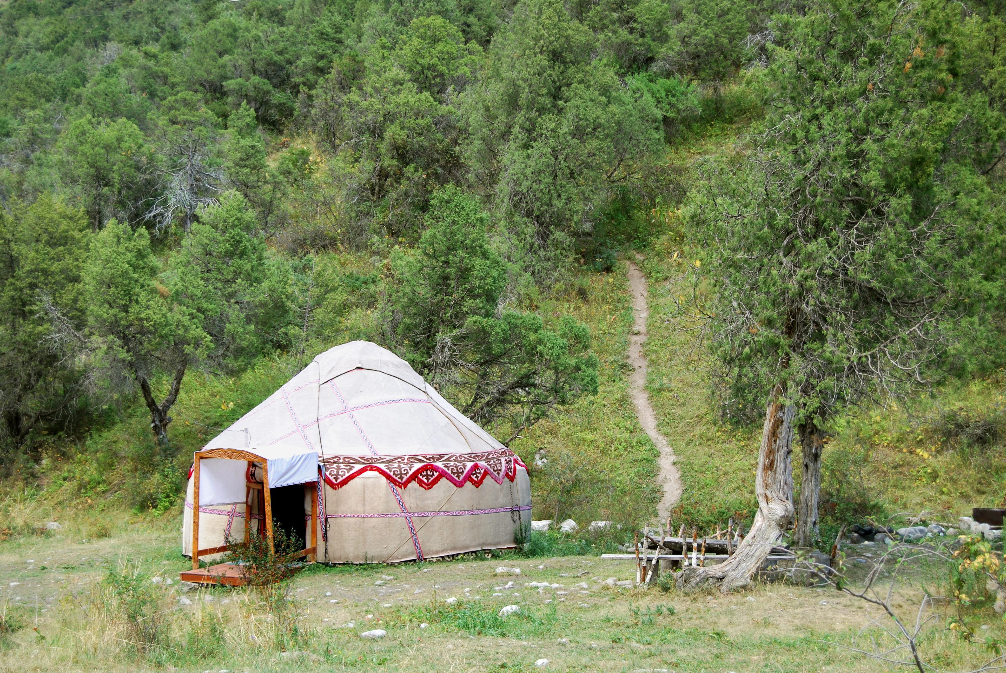 Small Kazakh Yurt